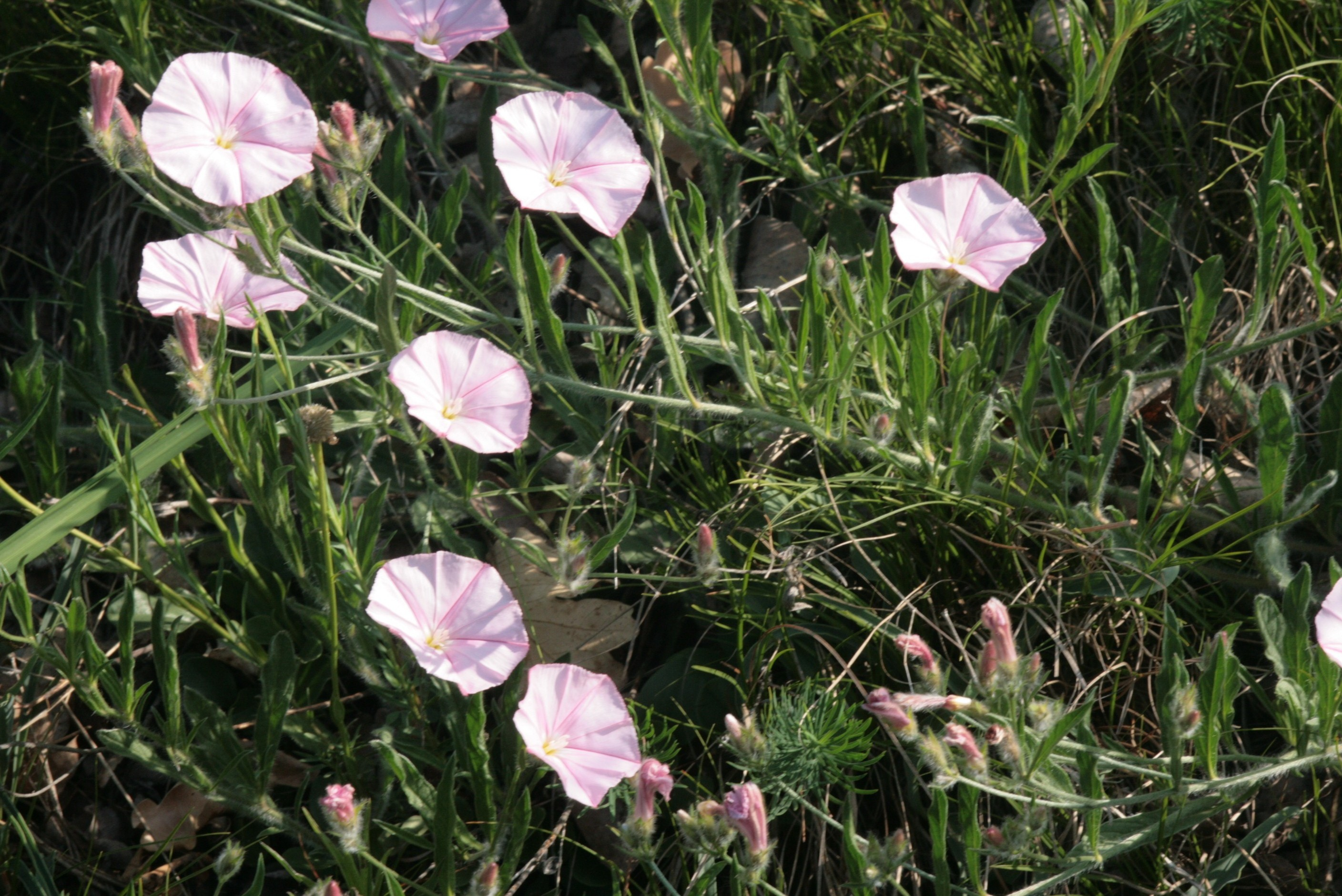 Convolvulus cantabrica